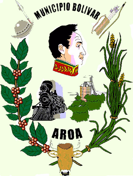 Bolivar Municipality shield (Yaracuy),Venezuela